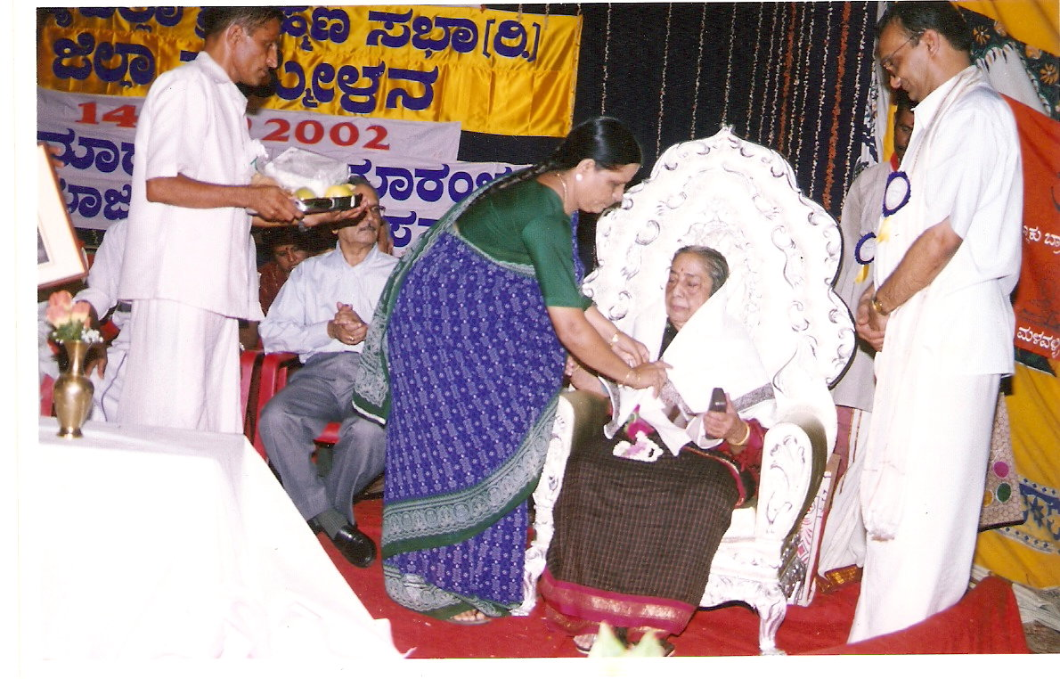 Dr.Singaramma being honoured by Mandya Brahman Sabha